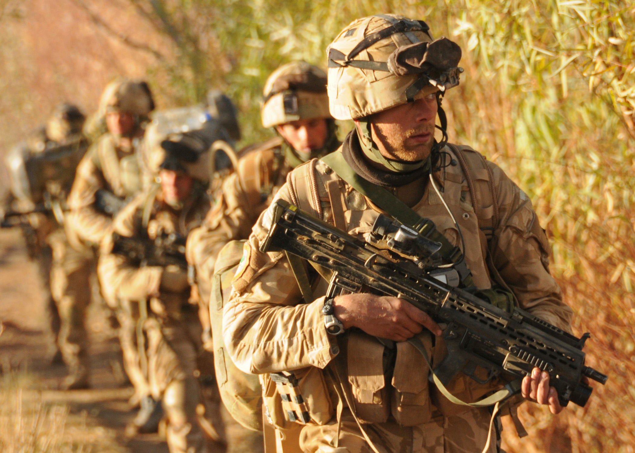 British Royal marine commandos take part in Operation Sond Chara, the clearance of Nad-e Ali District of Helmand province in southern Afghanistan by Afghan national security force and troops deployed with the International Security Assistance Force 42-Commando in late December. The operation's goal was to bring stabilzation to the district and to increase security to Lashkar Gah and set safe conditions for voter registration later this year.